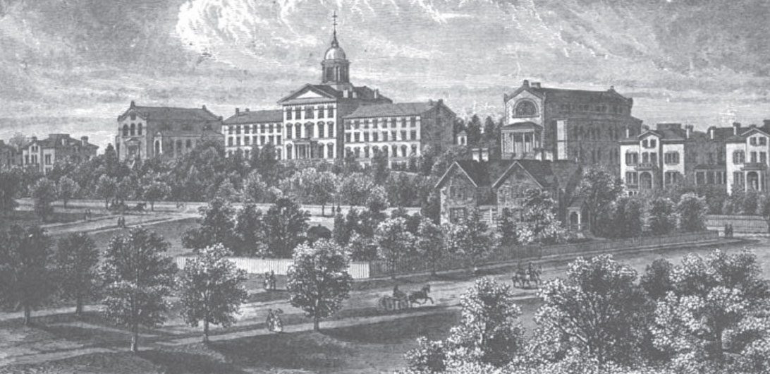 A print made between 1883 and 1885, depicting the campus of the New Brunswick Theological Seminary, a Reformed Church seminary founded in 1784 located in New Brunswick, NJ. The oldest Protestant seminary in North America. Seen from the south-east, from George Street. Print executed while Minton was associated with the studio of engraver Elbridge Kingsley in New York.